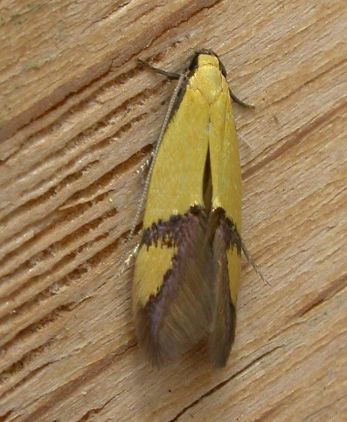 Opogona stereodyta (Meyrick, 1897), to MV light, Aranda, ACT, 14/15 April 2010